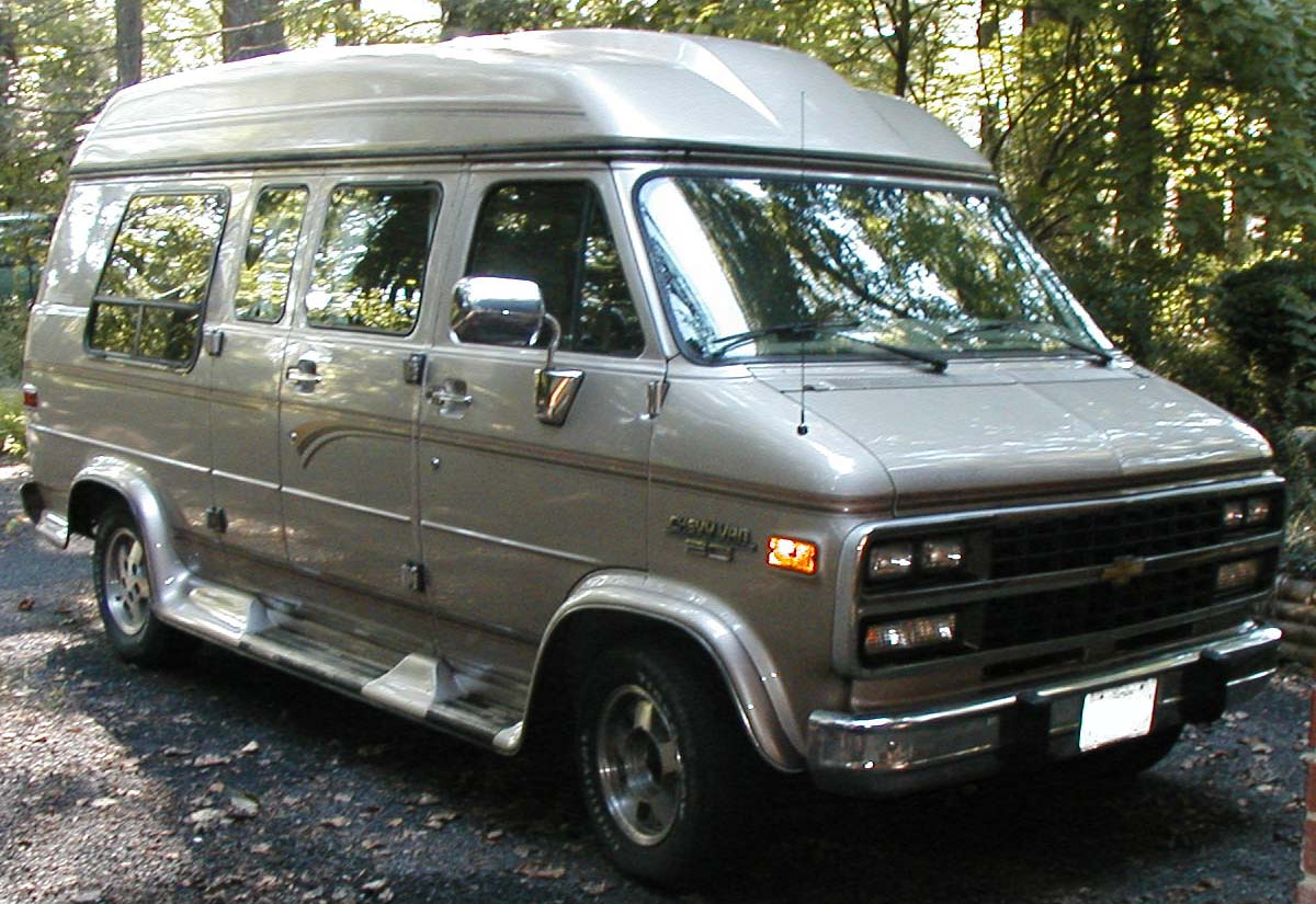 1994-1996 Chevrolet conversion van photographed in USA.